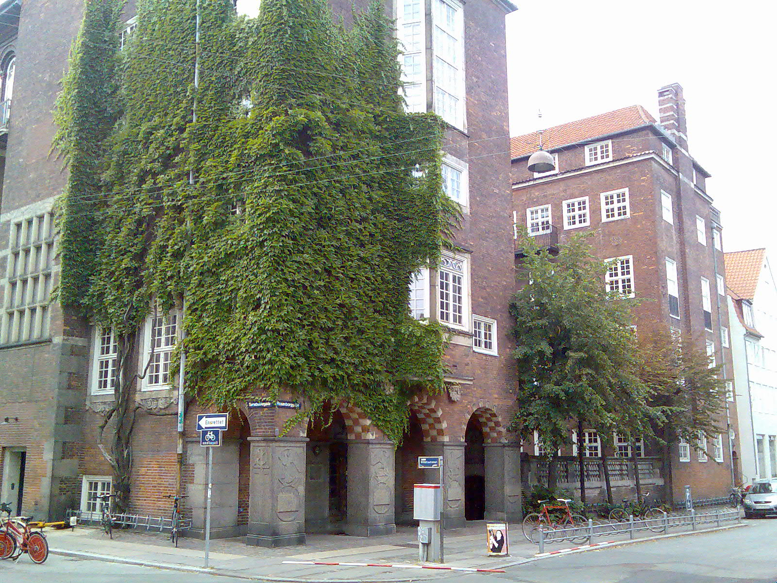 Rosenborggade 15, DK-1130 København K, Denmark. Part of the "KFUM Borgen" complex. Build in 1916. Tornebuskegade running to the left, Rosenborggade to the right. Picture direction North.